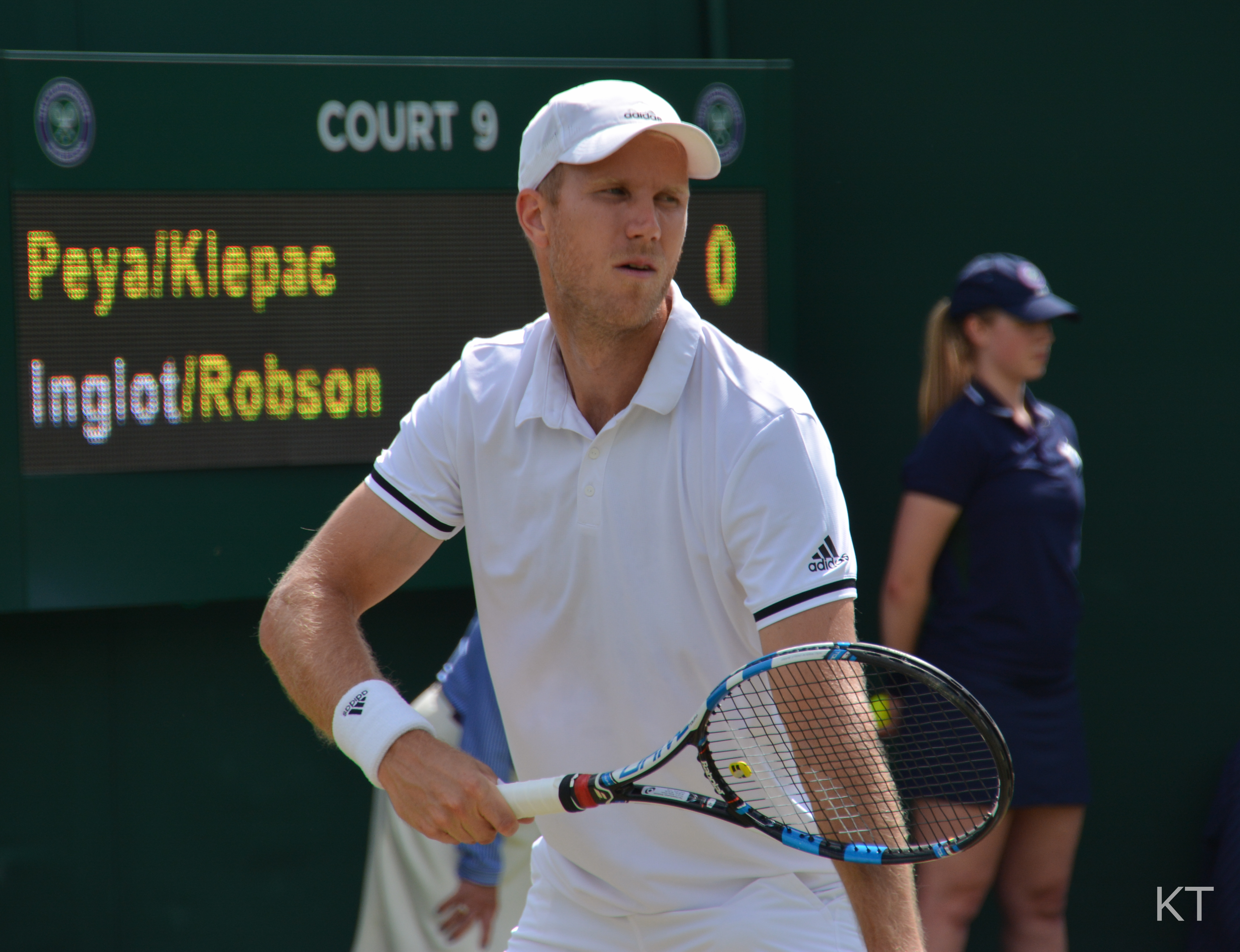 Middle Sunday of Wimbledon 2016.